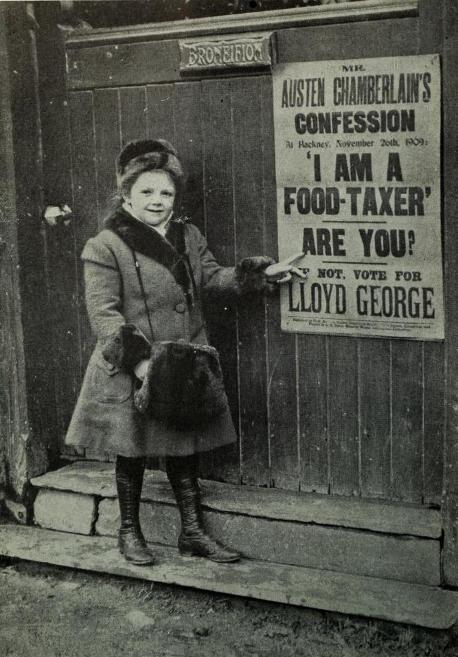 "Lloyd-George's Daughter."